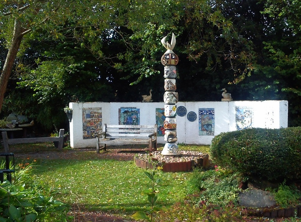 Sculpture garden at the Brecon Beacons Mountain Centre (the National Park Visitor Centre managed by the Brecon Beacons National Park Authority) near Libanus, Powys, Wales